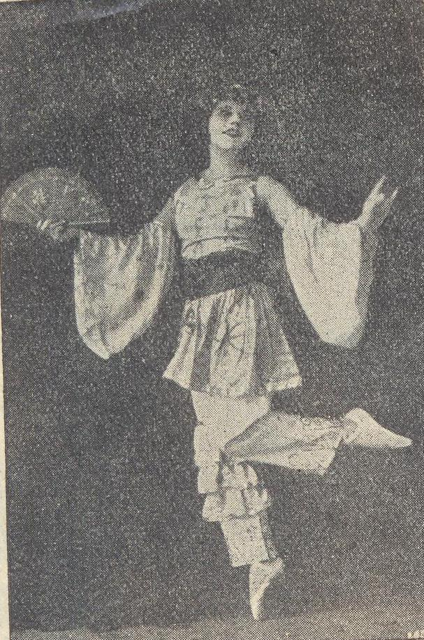 Nadezhda Vinarova in Coppélia, 1928.